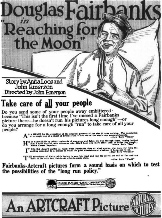 Advertisement for the American adventure film Reaching for the Moon (1917) with Douglas Fairbanks, on page 45 of the November 30, 1917 Variety.